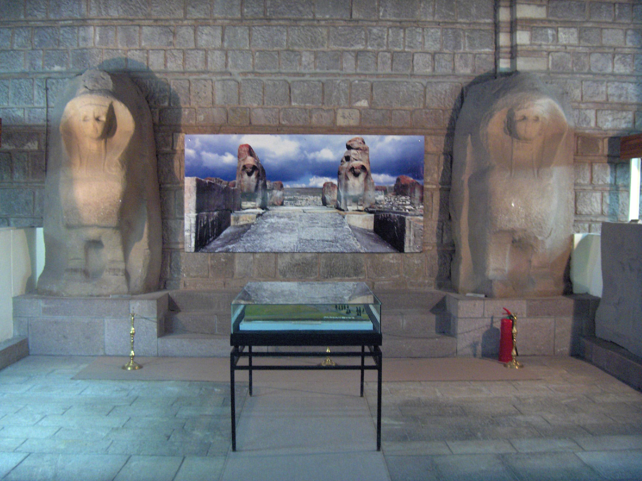 Sphinxes at the gate in the city wall of Alacahöyük; 15th - 14th c. BC; Museum of Anatolian Civilizations, Ankara, Turkey